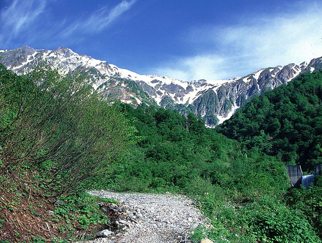 Mount Shirouma (Shiroumadake) seen from the ESE.